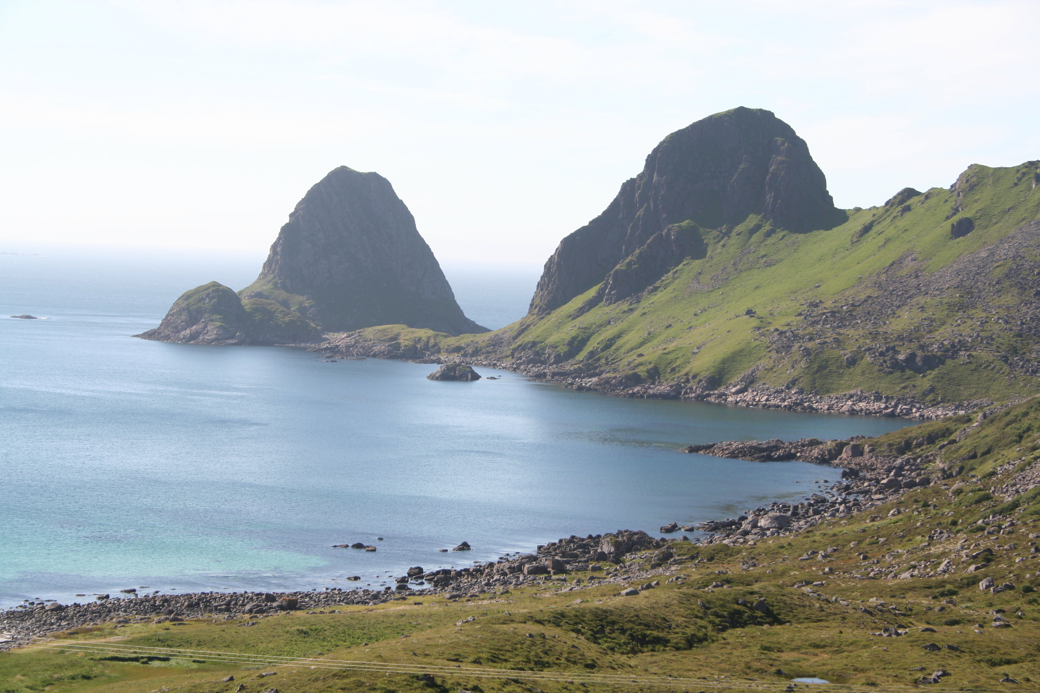 Nykan mountains in Bø, Nordland, Norway. The mountains are (from the left) Teisten (43 metres above the sea), Spjøten (135 metres above the sea) and Engenyken (174 metres above the sea).